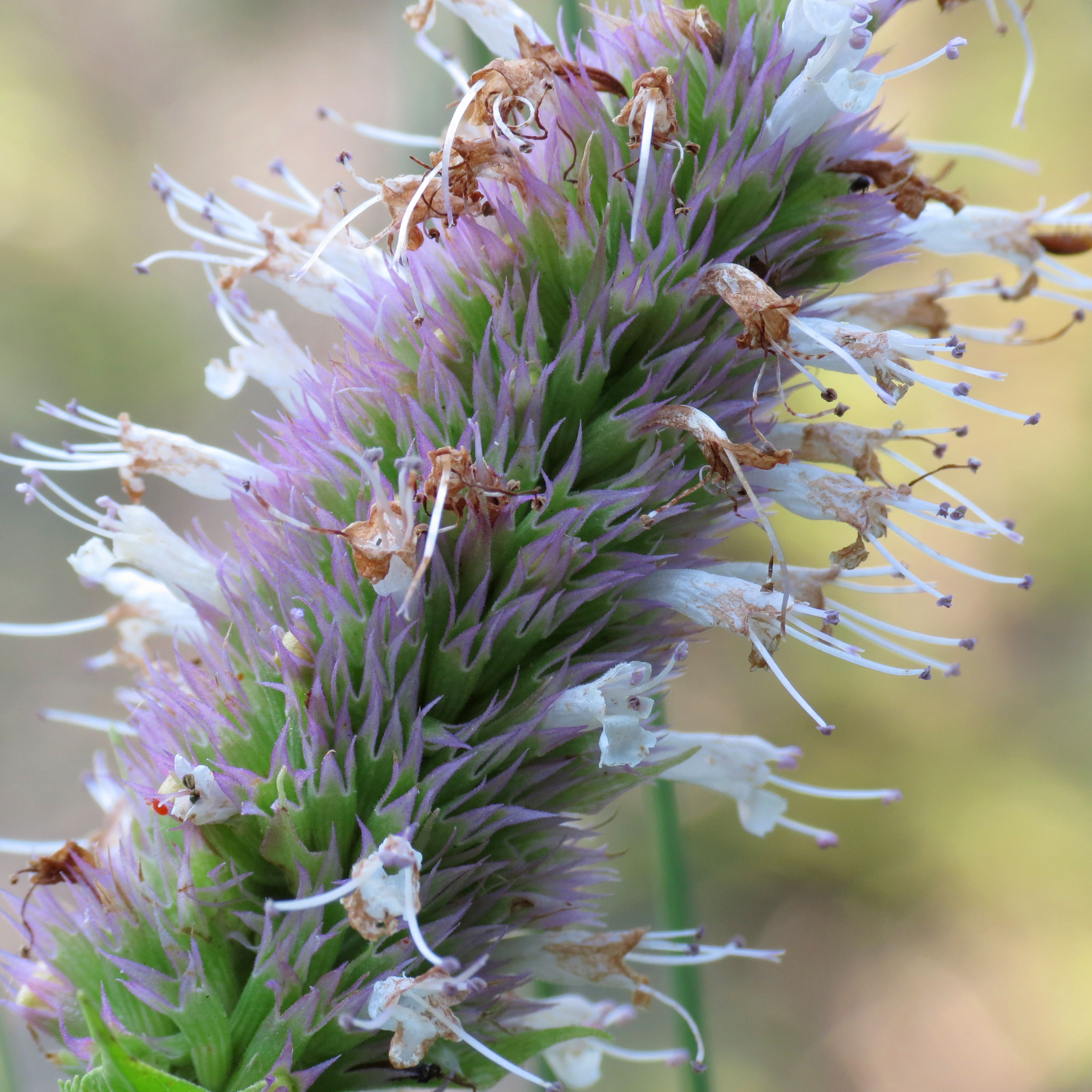 Agastache urticifolia. Near Redfish Inlet, Sawtooth National Forest near Stanley, Idaho.